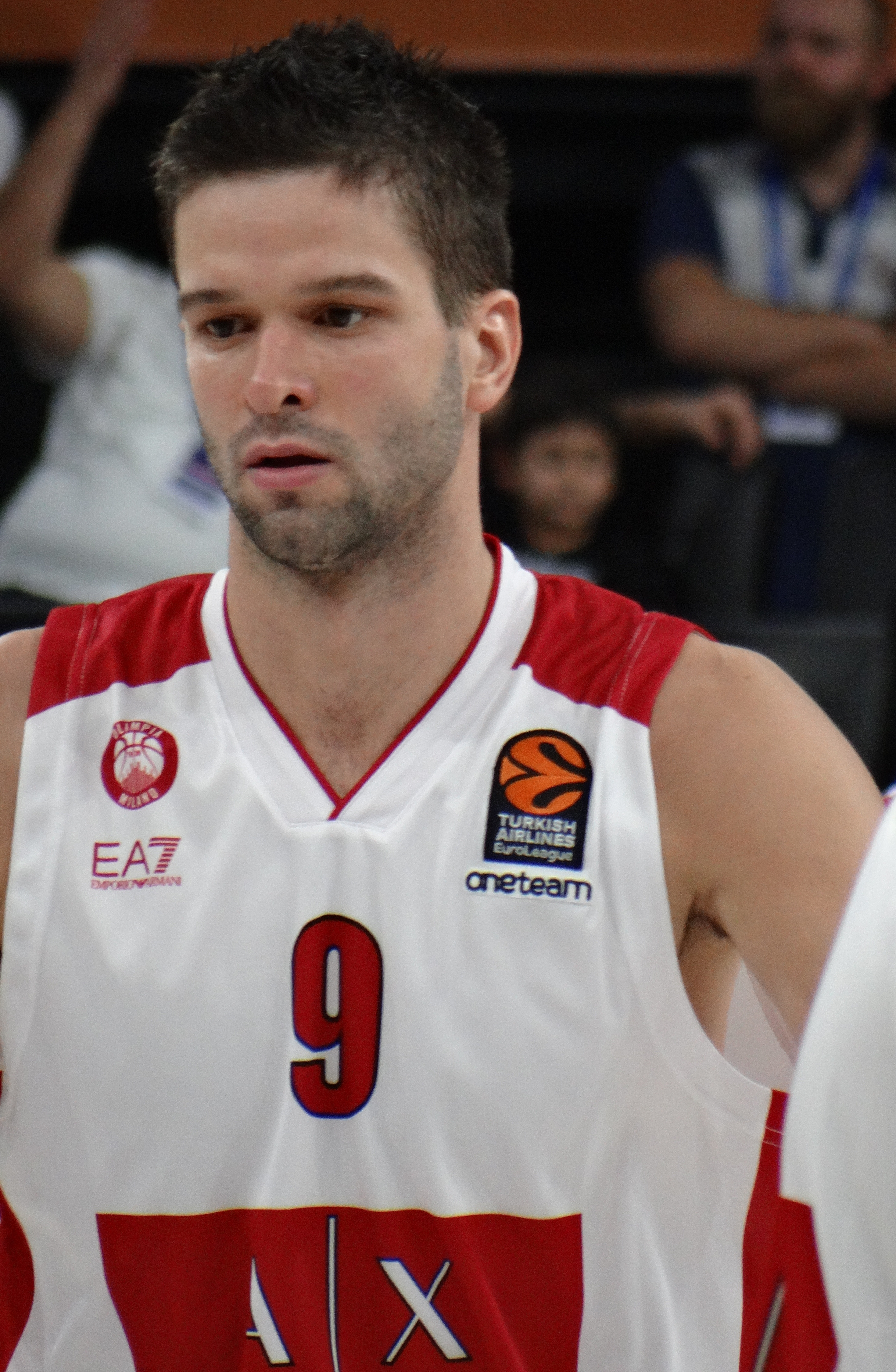 Mantas Kalnietis 9 AX Armani Exchange Olimpia Milan 20171130